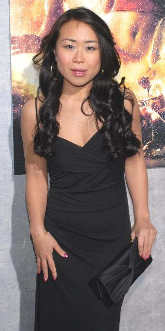 Mari Koda at the premiere of the film Step Up 2 The Streets